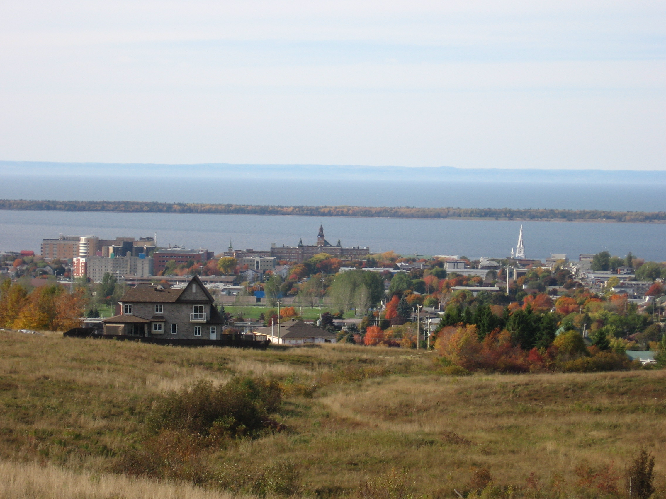 Rimouski